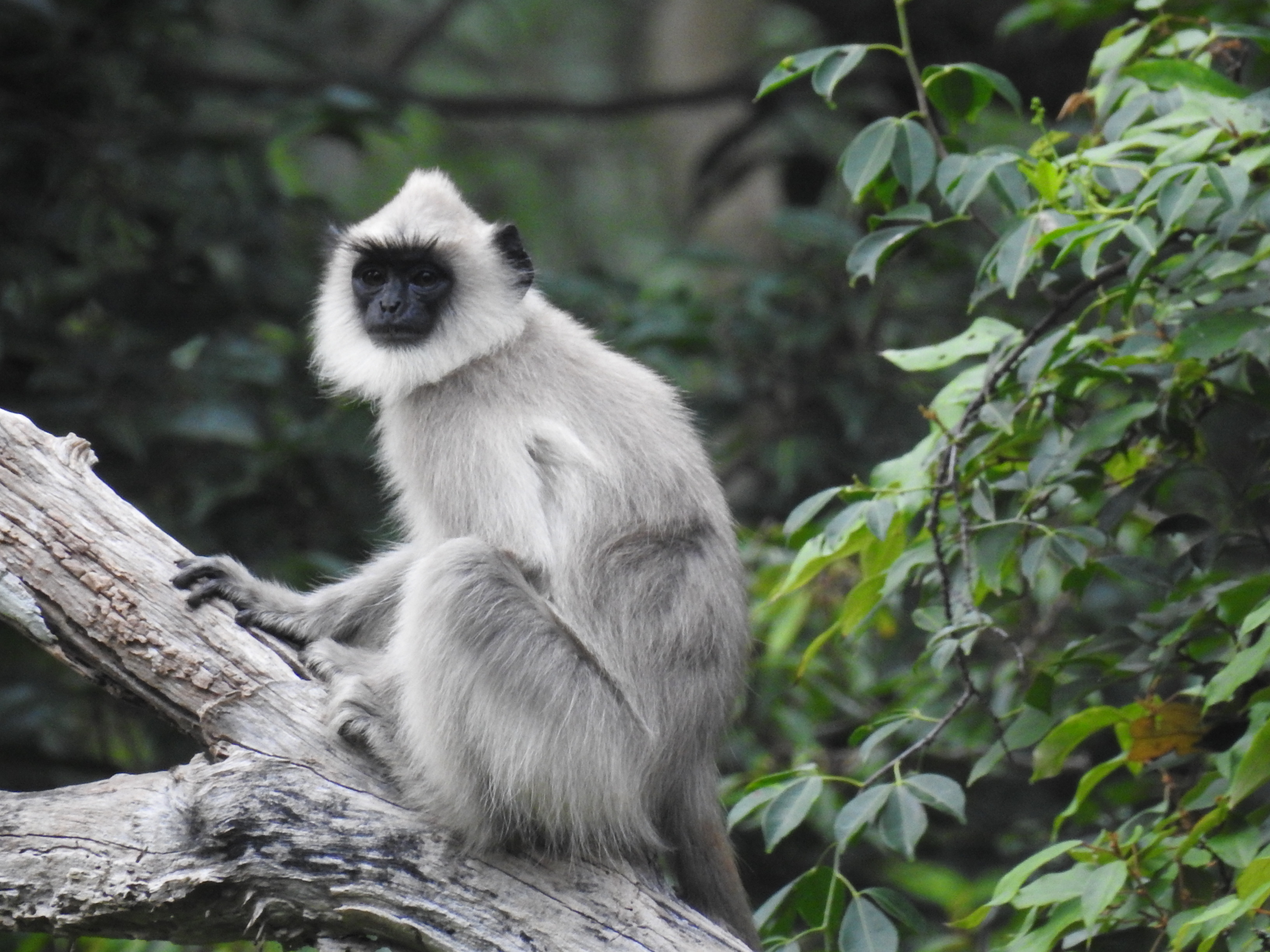 The Tufted gray langur Semnopithecus priam in BR Hills, Karnataka